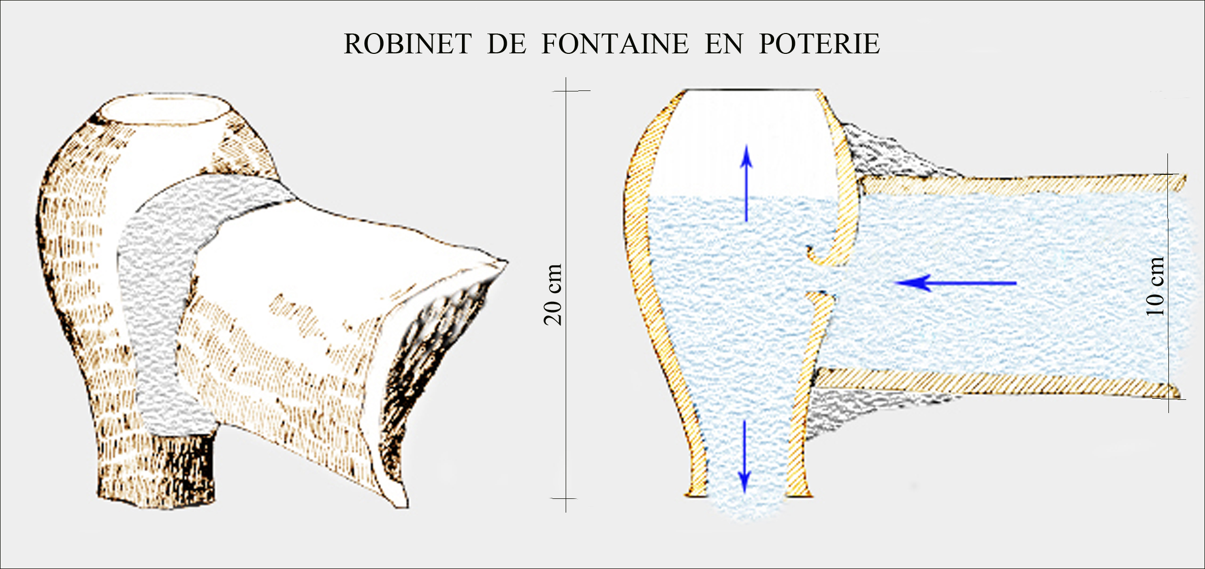 Clay water-cock. Bel Temple at Nippur Mesopotamia.